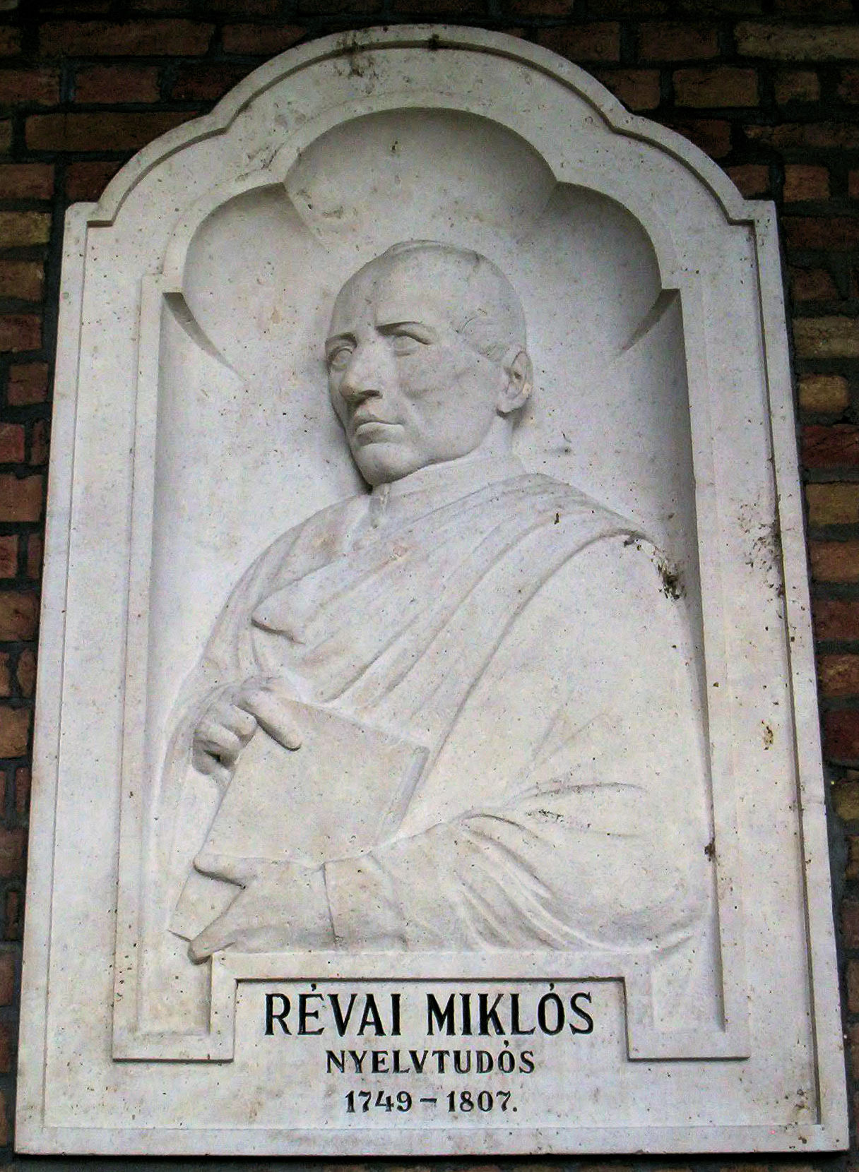 Révai Miklós a szegedi Pantheonban – photo taken by uploader User:Csanády in 2006.